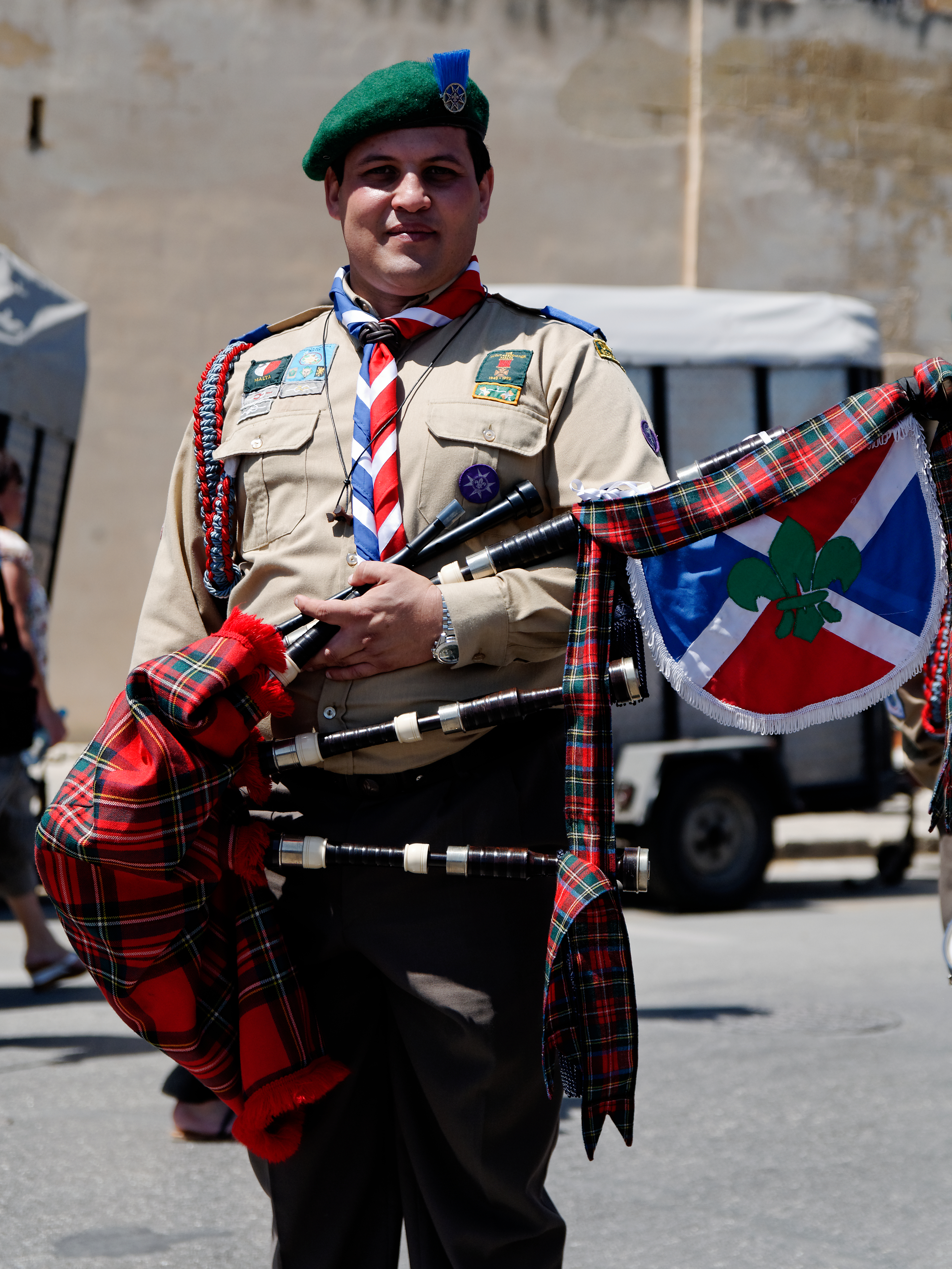 The Malta scouts annual parade 2012 in Valletta, here in front of Fort St. Elmo.